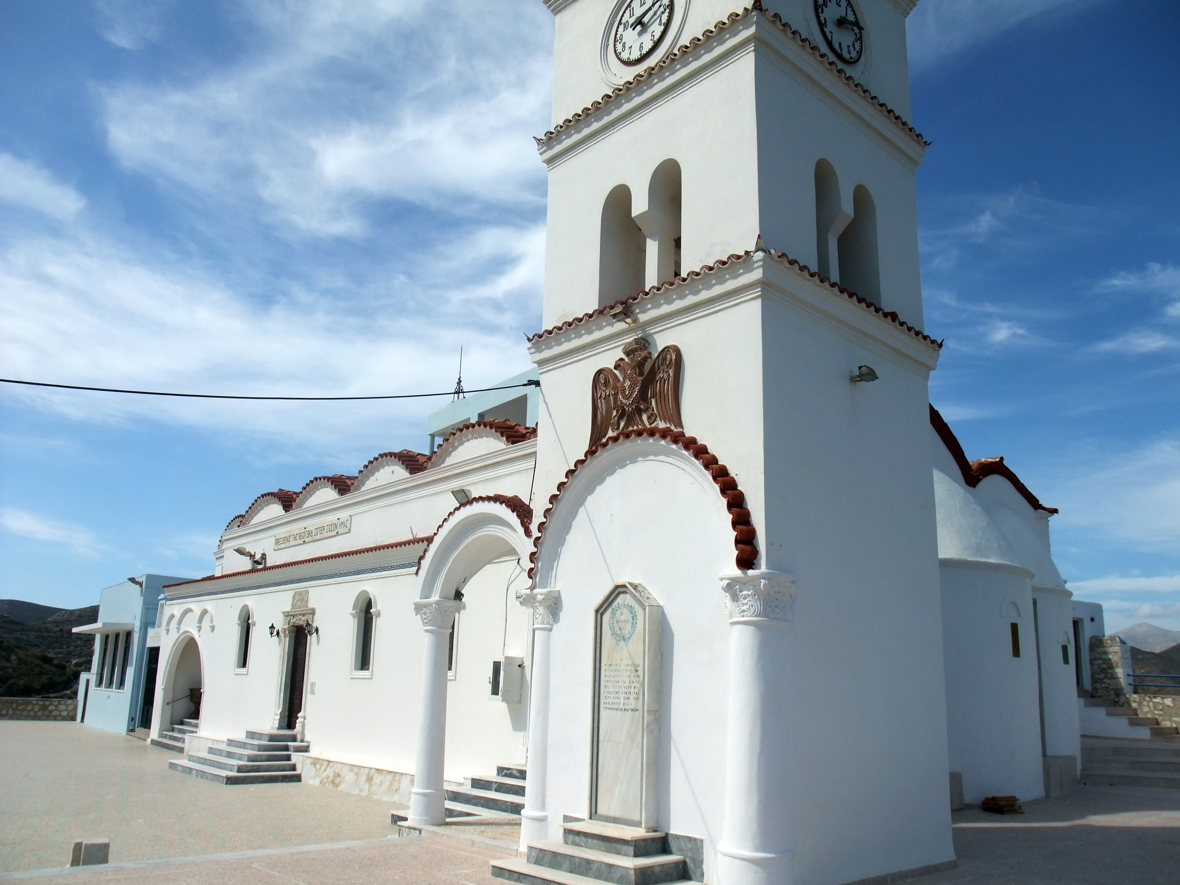 Church Kímissis tis Theotókou in Menetés, Karpathos